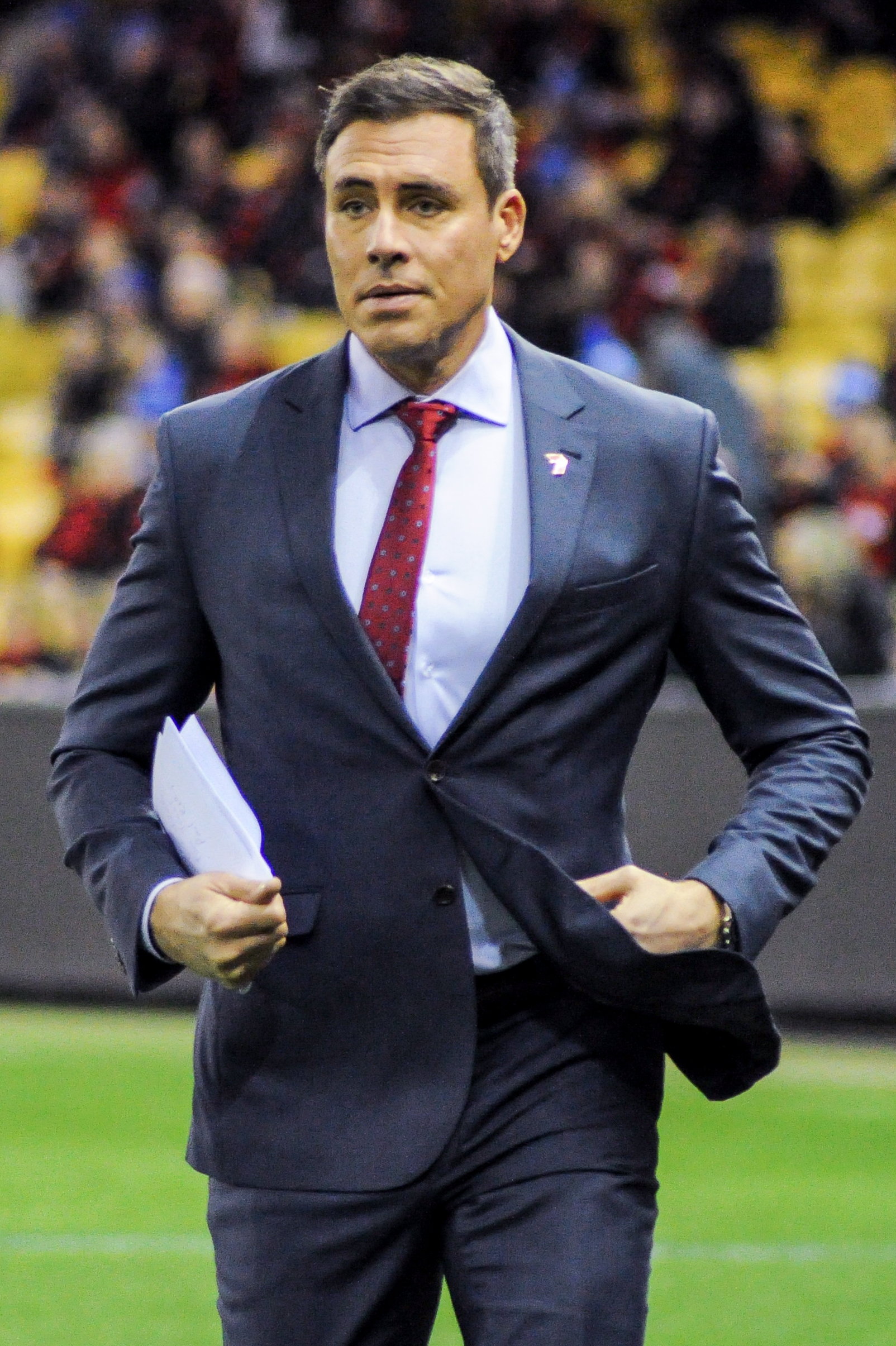 Matthew Richardson during the AFL round twelve match between Essendon and Port Adelaide on 10 June 2017 at Etihad Stadium in Melbourne, Victoria.